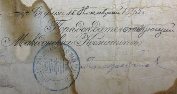 Stamp of Supreme Macedonian-Adrianople Committee and signature of Naum Tyufekchiev